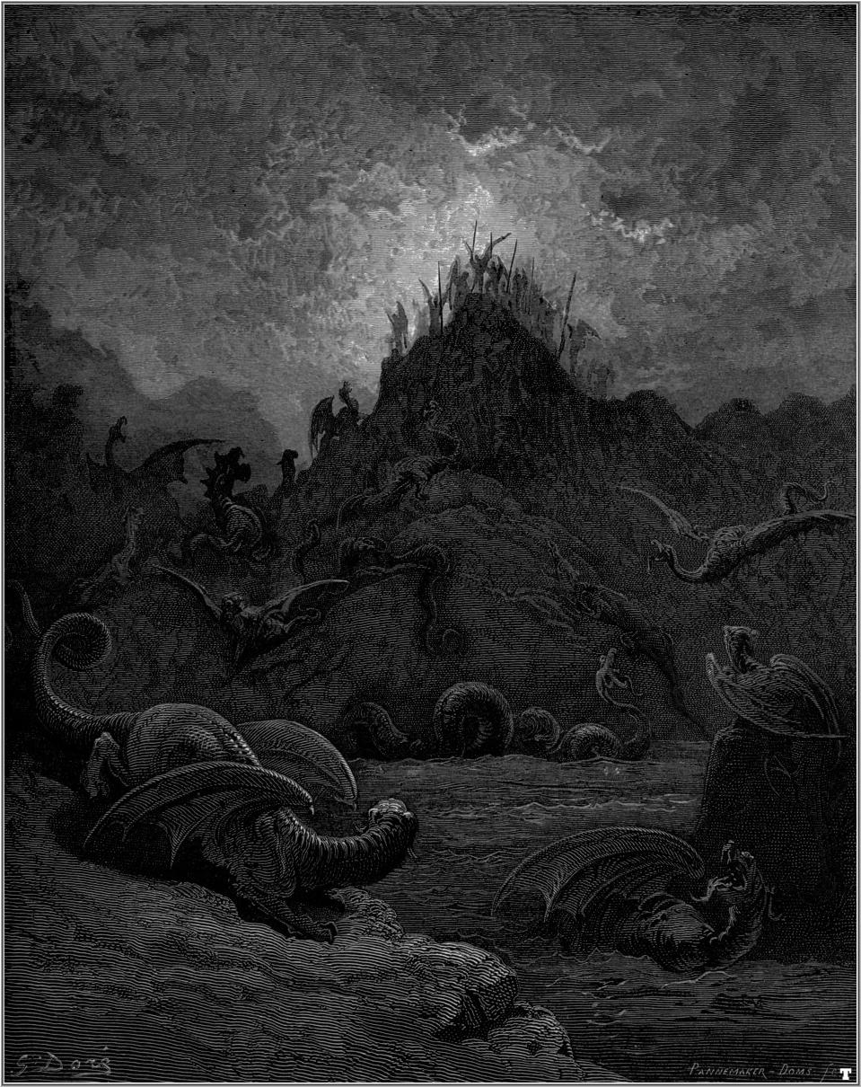 Illustration for John Milton’s “Paradise Lost“